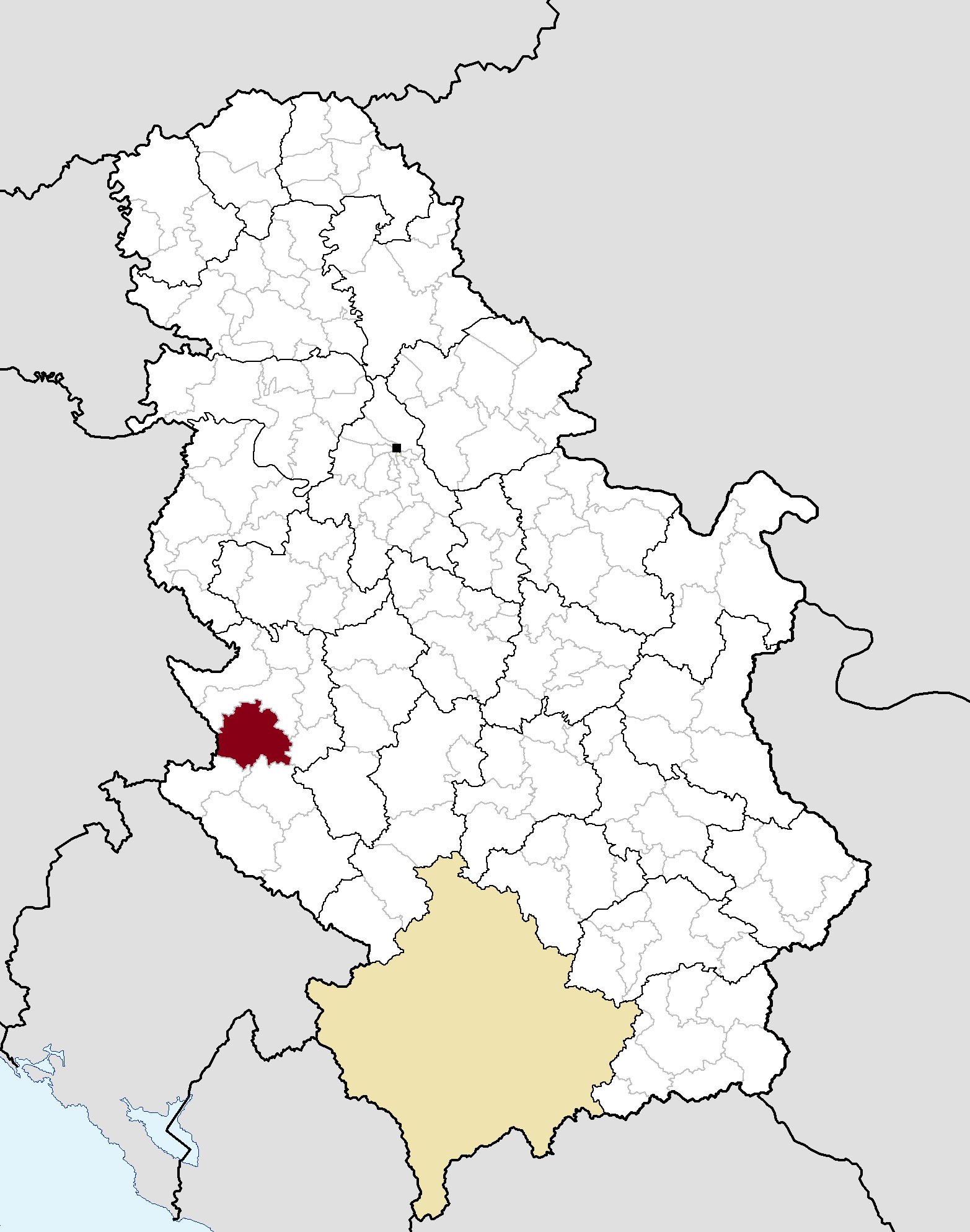 Municipal location in Serbia